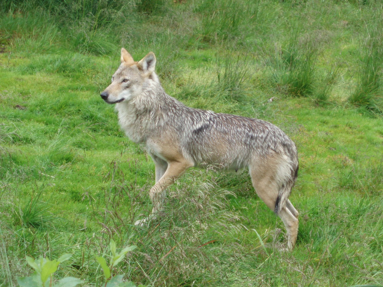 A wolf in Polar Zoo, female, Canis lupus